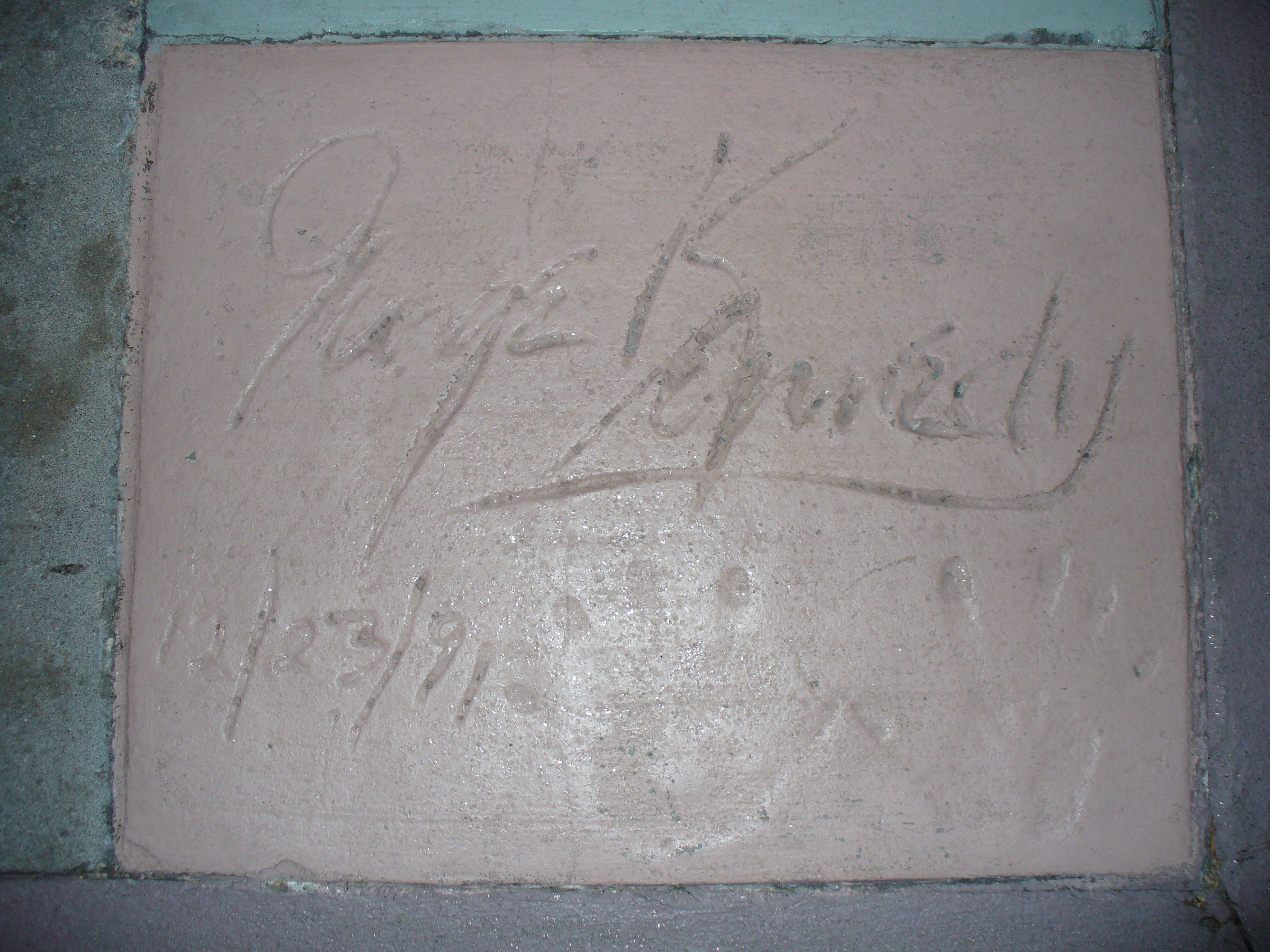 This photo depicts the handprints of George Kennedy in front of The Great Movie Ride at Walt Disney World's Disney's Hollywood Studios theme park.